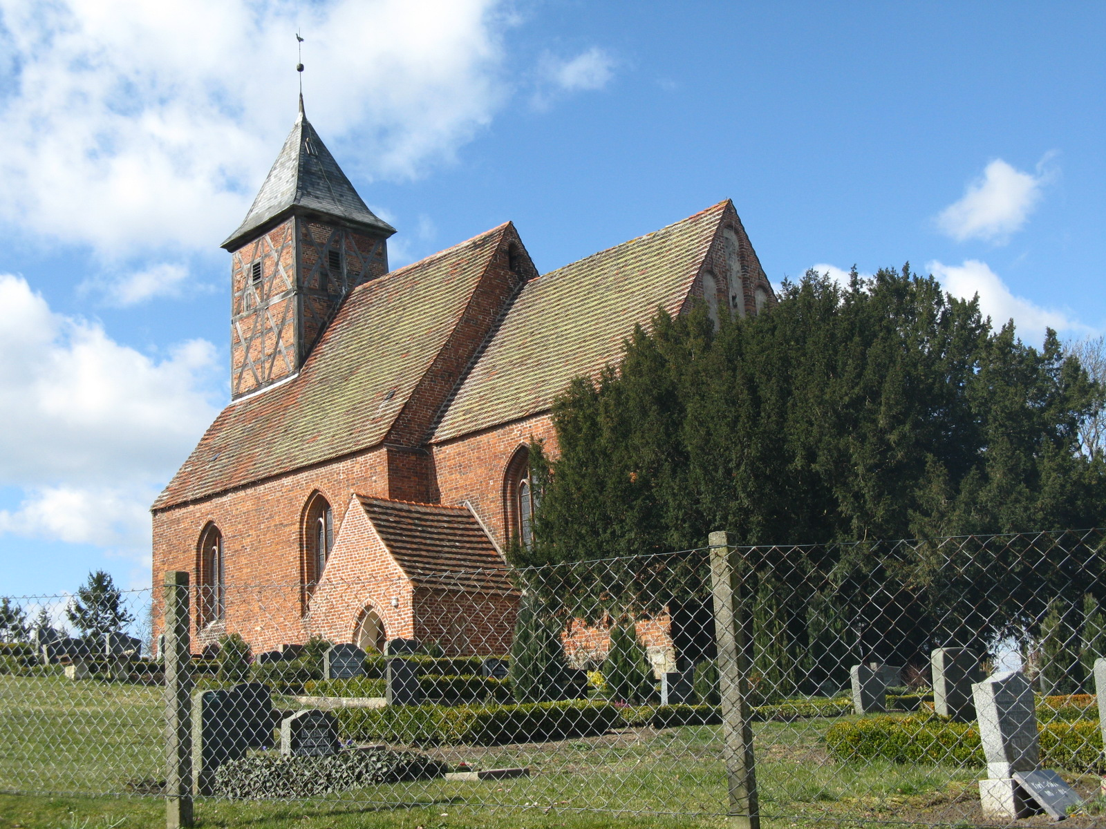 Church in Woosten, Germany